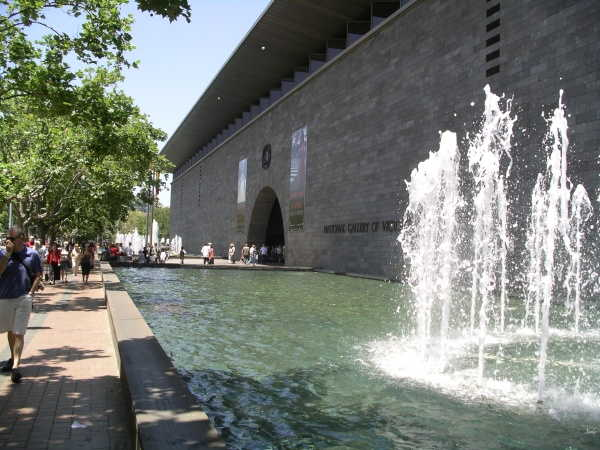 National Gallery of Victoria - international building. Taken in December 2003 and placed in the public domain by the photographer.